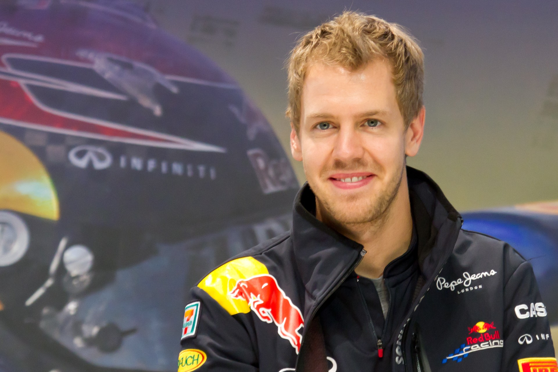 Sebastian Vettel (Red Bull) at Nissan Global Headquarters Gallery.